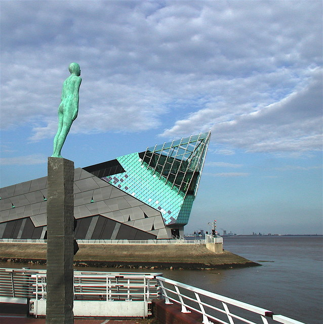 "Voyage", by Steinunn Thorarinsdottir. This sculpture of a figure looking out towards the Humber Estuary and the North Sea beyond was put in place in 2006 together with a sister sculpture in Vik, Iceland to "symbolise the bond created by more than a thousand years of sea trading between Hull and Iceland". The building in the background is 'The Deep', a visitor attraction designed by Sir Terry Farrell and opened in March 2002.